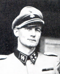 SS-Sturmbannführer Christian Frederik von Schalburg, his son Alex, and Untererscharführer Søren Kamm